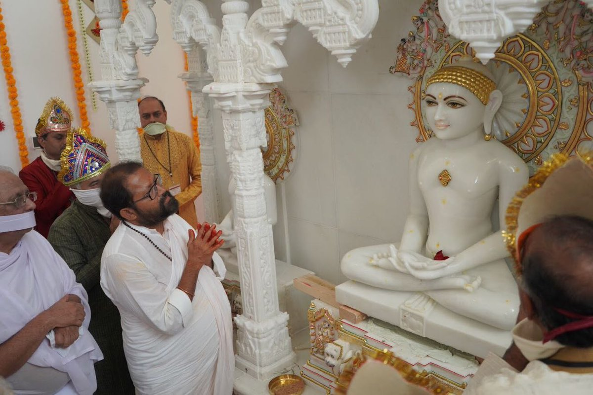 Celebrations on occasion of 25th anniversary of Jain temples at Austin, Texas, North America by Rakesh Jhaveri.